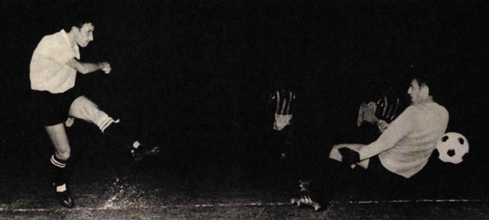 Turin (Italy), Communal Stadium, September 17, 1969.From left to right: Juventus' defender Ernesto Castano beats Plovdiv's goalkeeper Stancho Bonchev and scores at 73' the final 3-1 in the match between Juventus F.C. and Lokomotiv Plovdiv, 1st leg of 1969–70 Inter-Cities Fairs Cup, 1st round.